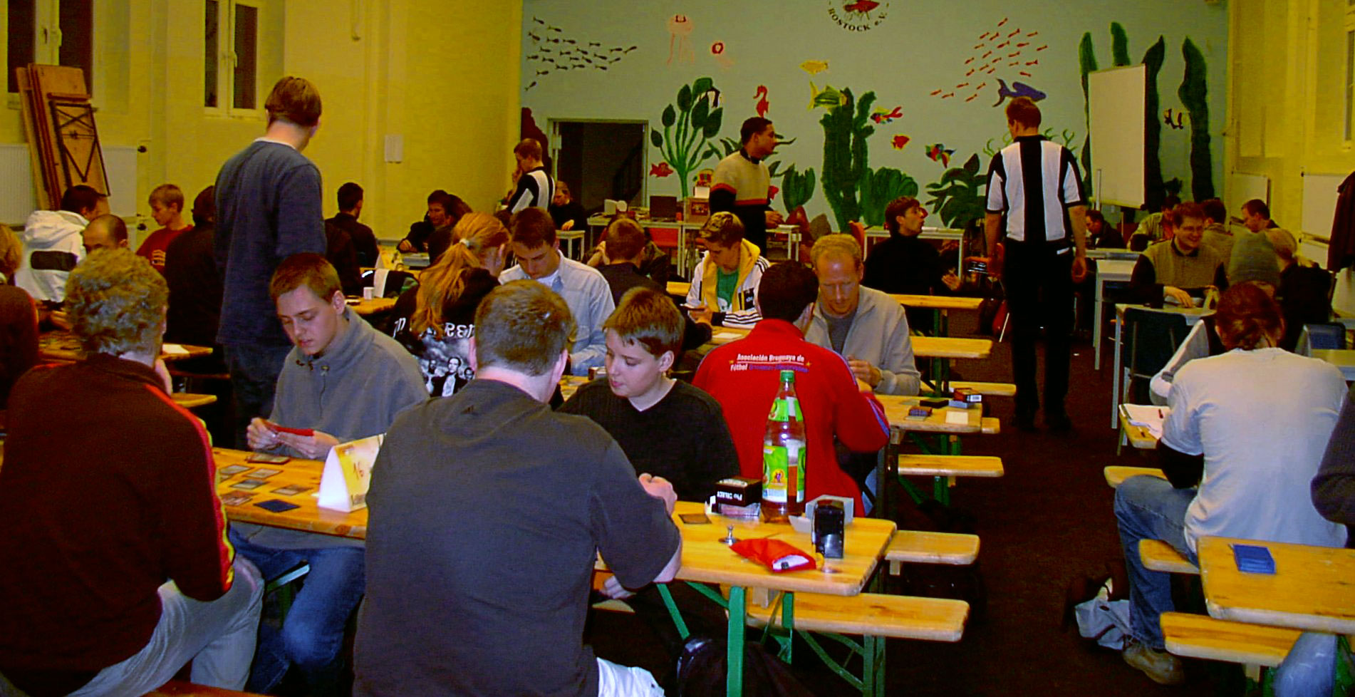 Magic: The Gathering players during a tournament. You can notice that there are no women at all.(PTQ Nagoya) in Rostock, Germany